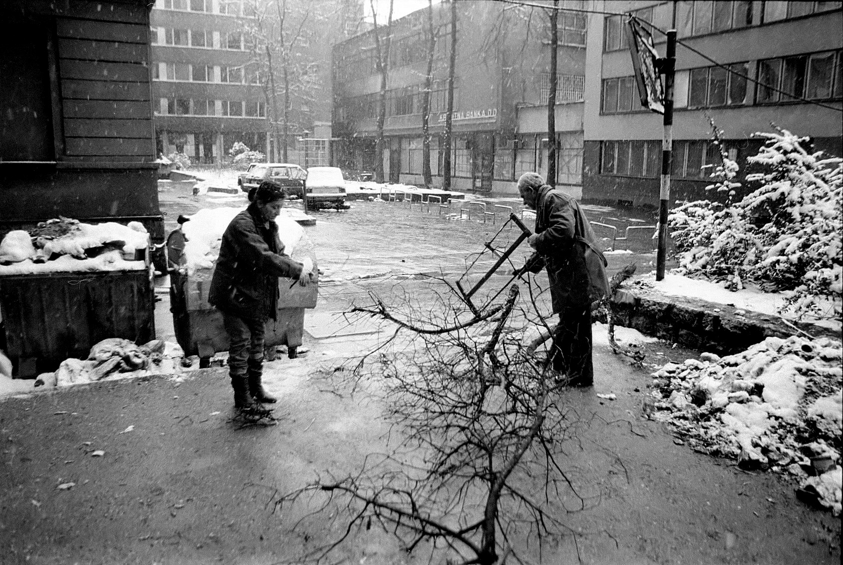 Sarajevo siege life, winter of 1992–1993. Cutting branches from Sarajevo's trees -- often at risk of being sniped -- as fuel for stoves to heat water and provide occasional meagre warmth. Winter brought freezing indoor temperatures, often even colder than outside. Christian Maréchal photo